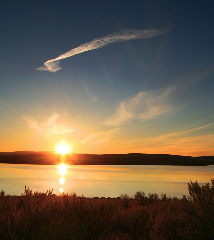 I discovered that Oregon has a small patch of the Mountain Time zone that begins just about at Antelope Reservoir. As a result, I arrived there early by my pacific time watch, but "late" enough in the mountain time zone that I didn't want to drive much further. Next time I am just powering through. This extremely remote pond was my rest stop on the drive to Idaho, chosen at random from Google Earth. The only company here was hundreds of migrating birds who chattered most of the night.